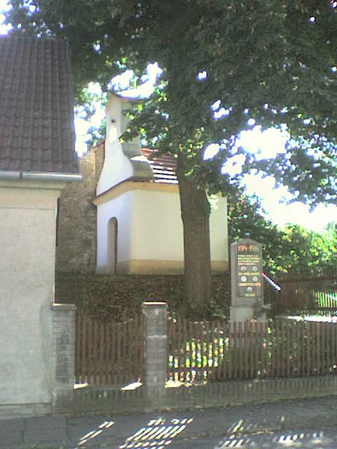 Chapel in Lodenice, Rakovnik district, the Czech republic